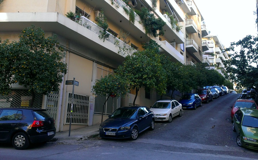 zografou